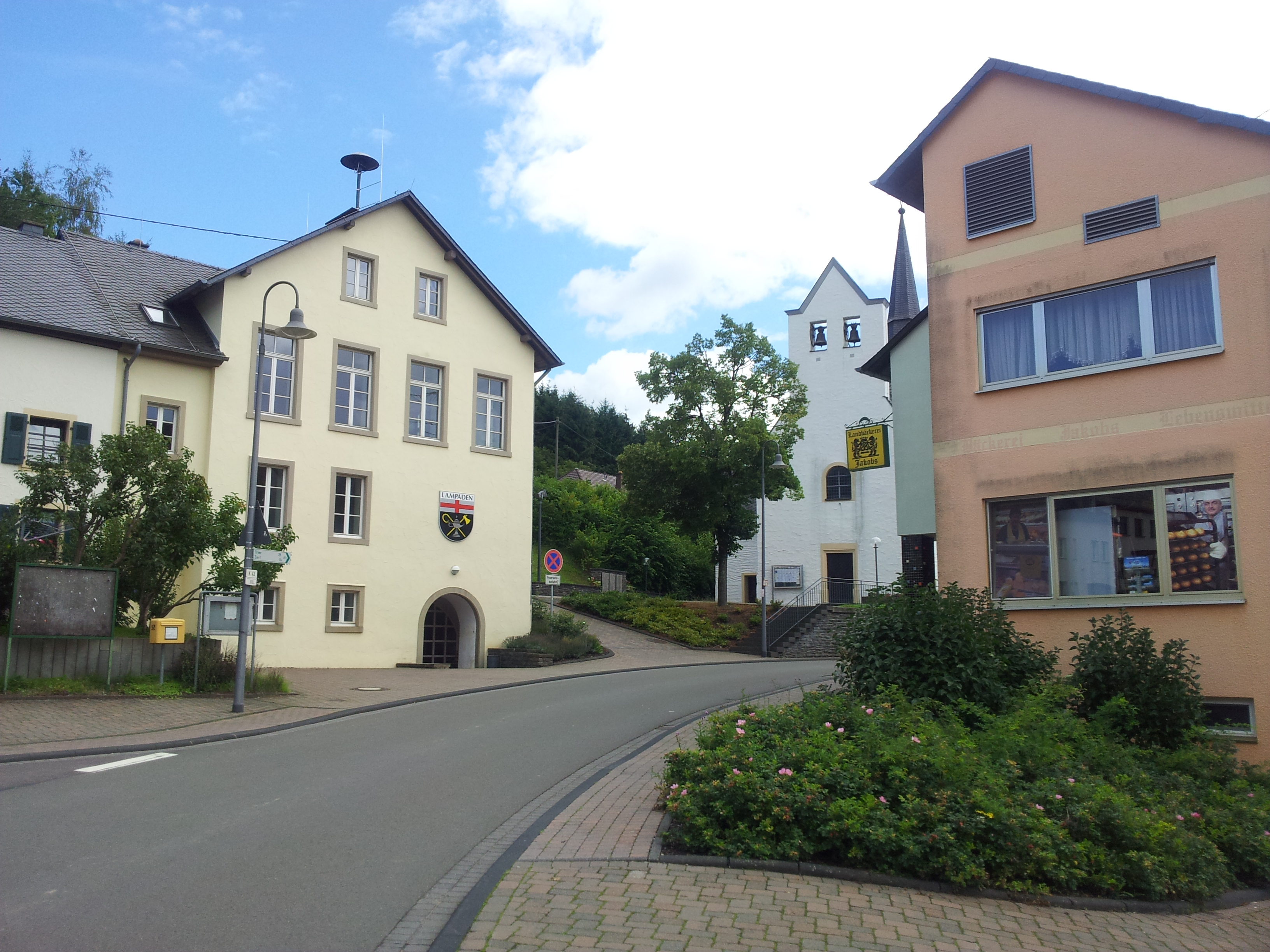 Centre of Lampaden